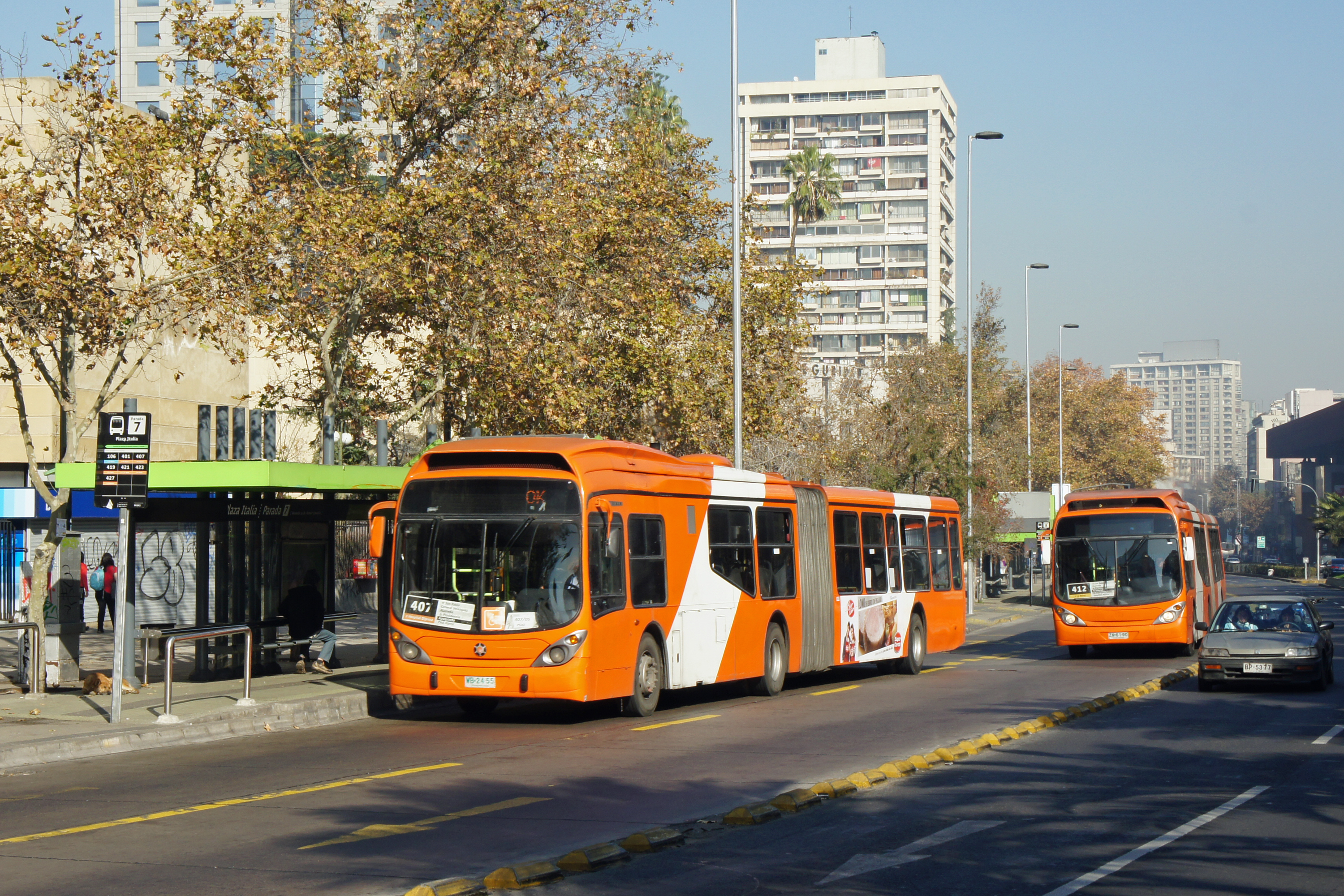 Transantiago buses on Avenida Libertador General Bernardo O'Higgins, Bus stop 7, Plaza Italia. Santiago, Chile